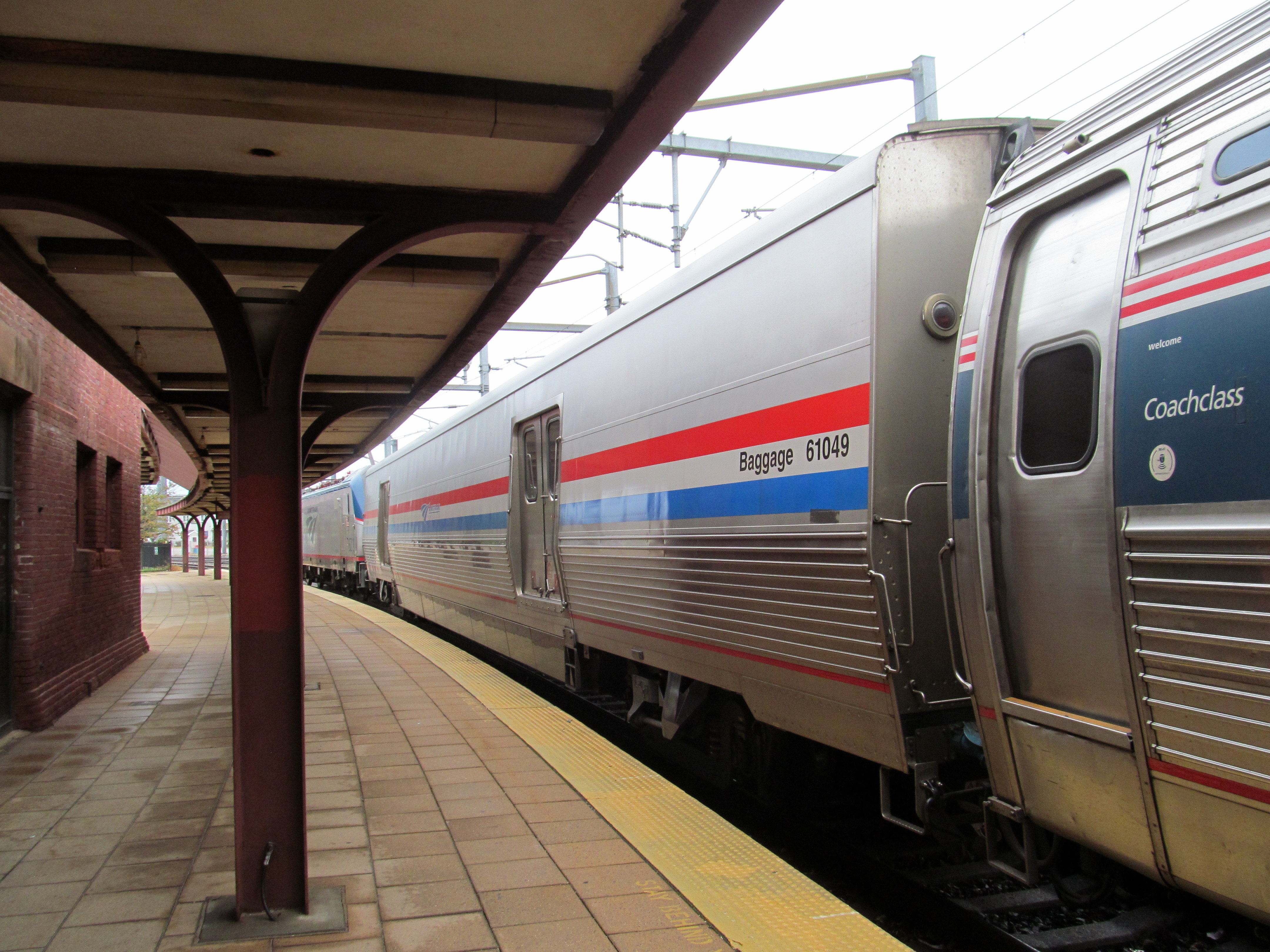 Viewliner-II #61049 on the very late northbound Northeast Regional #66 at New London Union Station in September 2016